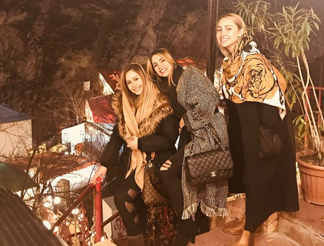 Having Fun at night in Tehran (Iran). Appropriate lighting When I took the photo.